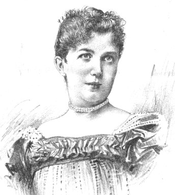 Portrait of Beatrice Dovsky (1866-1923), Austrian actress and writer. Cropped from a gallery of personalities connected with Raimund-Theater in Wien.